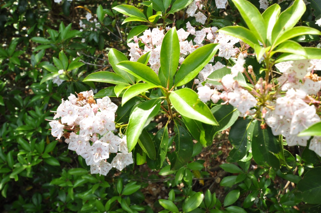 Mountain laurel blooming at Elliott Laurel preserve, Phillipston, MA